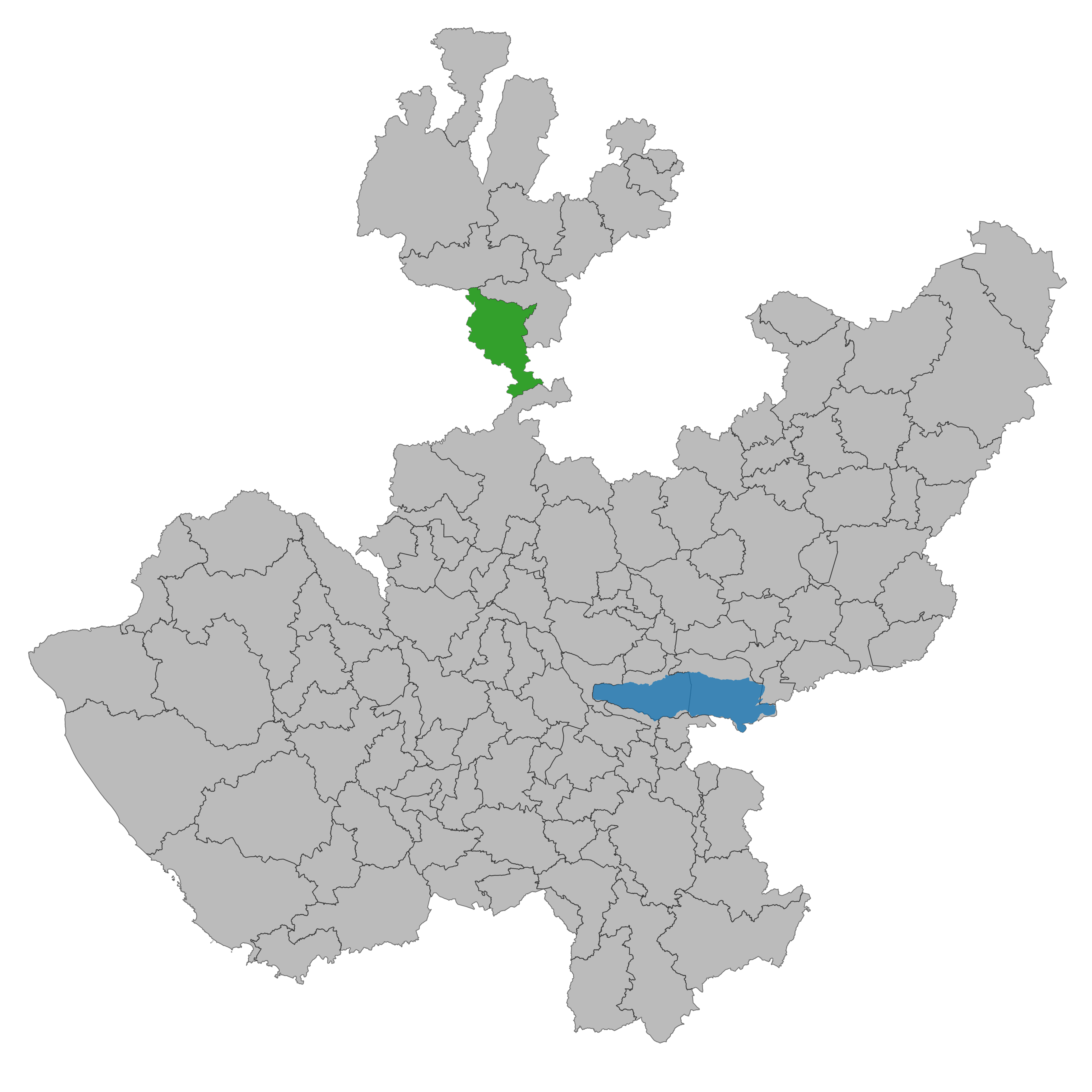 Municipality of Jalisco. Prepared with the software QGIS version 2.8.2 Wien & with information of SCINCE 2010 version 05/2013